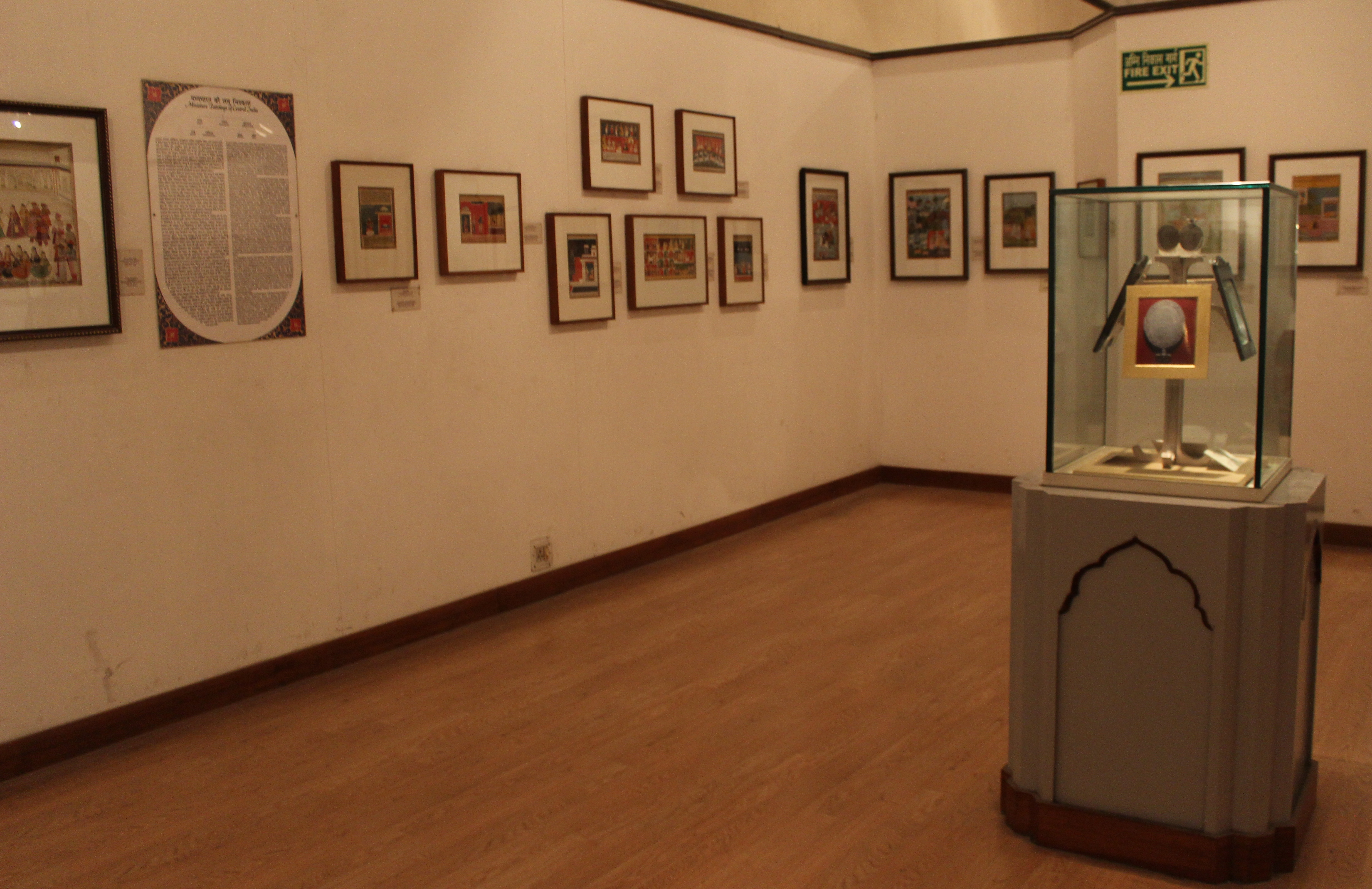 Inside the Galleries of National Museum, New Delhi